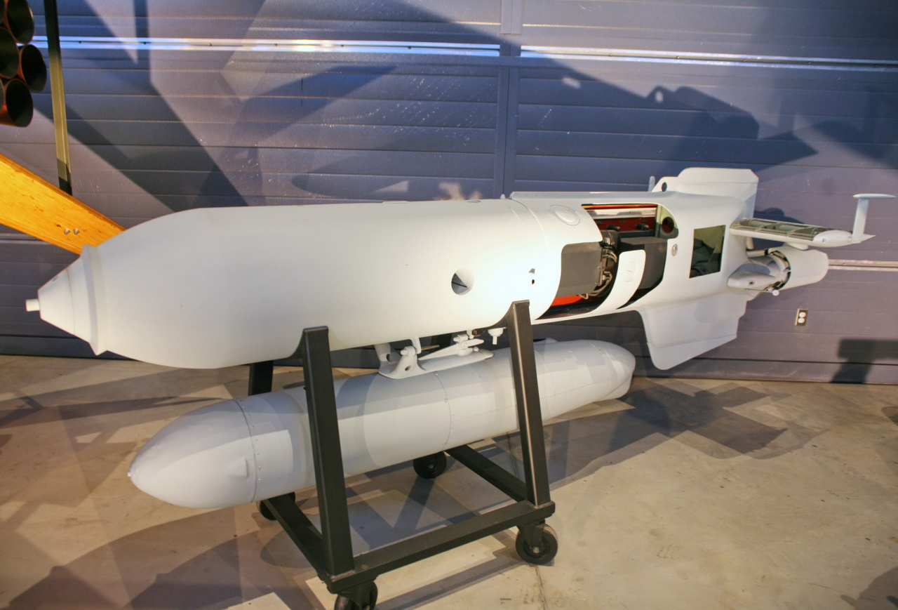 Germany developed the Hs 293 air-launched missile in World War II for use against ships or ground targets. It was basically a glide bomb assisted by a liquid-fuel rocket that fired for 10 seconds. The Hs 293 was carried under the wings or in the bomb bay of an He 111, He 177, Fw 200, or Do 217 aircraft. Its warhead was a modified SC 500 bomb containing Trialene 105 high explosive. A bombardier guided the missile by means of a joy stick and radio control. Beginning in mid-1943, Hs 293s sank several Allied ships, mostly in the Mediterranean theater. Although Germany developed many experimental versions, only the Hs 293 A-1 was produced in quantity. Steven F. Udvar-Hazy Center.